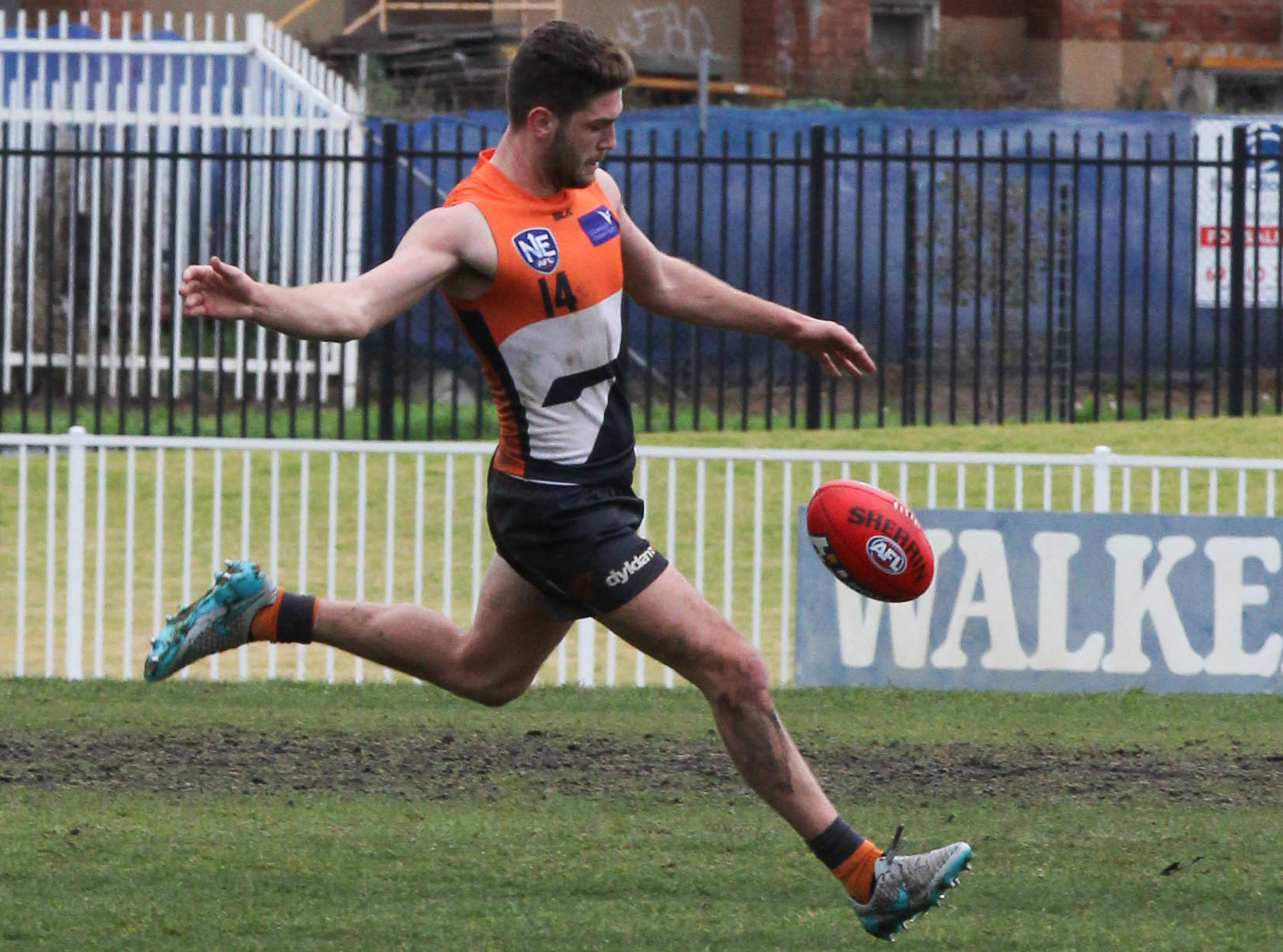 Tomas Bugg kicking during the UWS Giants vs. Eastlake NEAFL match at Robertson Oval on 1 August 2015.